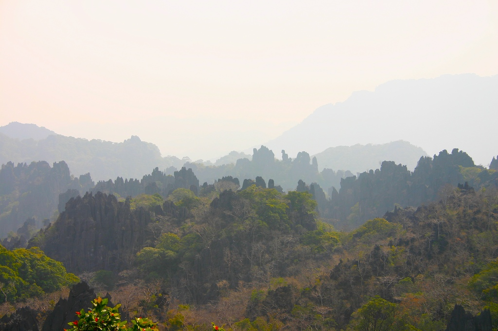 Karst scenery in Bolikhamxai province, copyright holder Laurence McGrath.